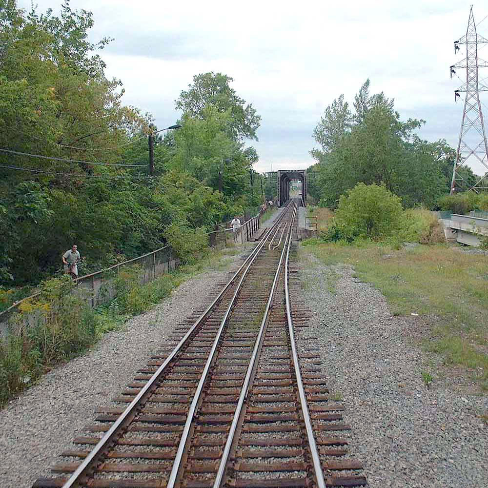 The gantlet track of the Perry island CPR bridge crossing the Des Prairies river between Montréal island and Jésus island, on CP’s Lachute subdivision north of Bordeaux (MP 9.9).